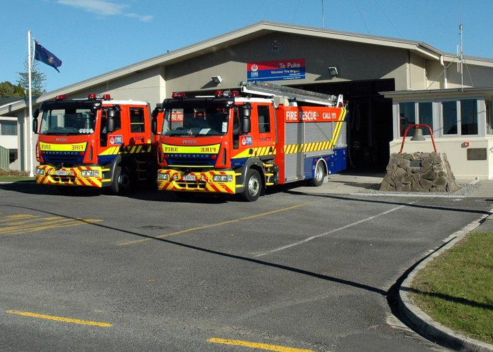 Te Puke Fire Brigade Station and Appliances 797,791